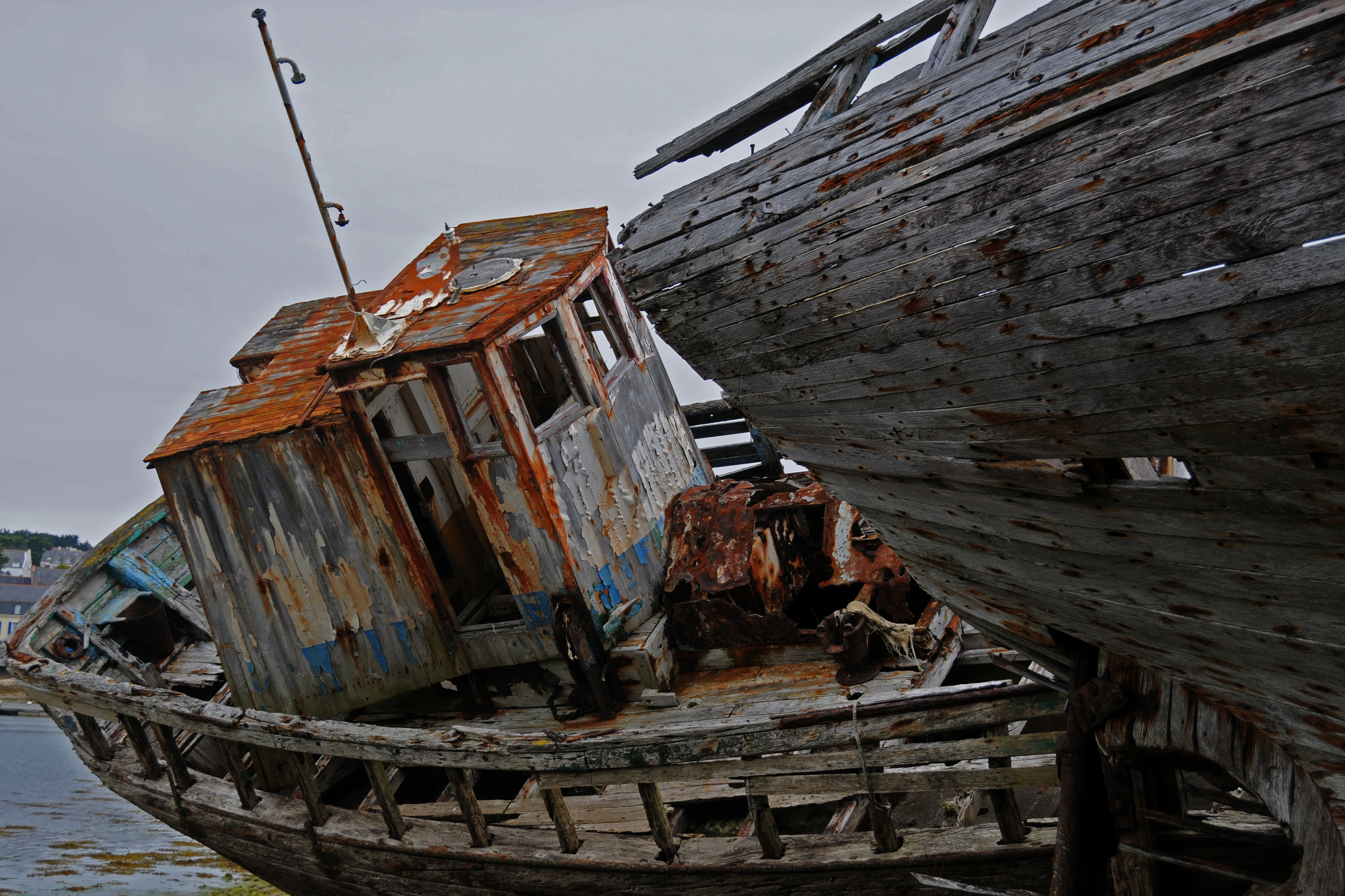 Cimetière de bateaux à Camaret